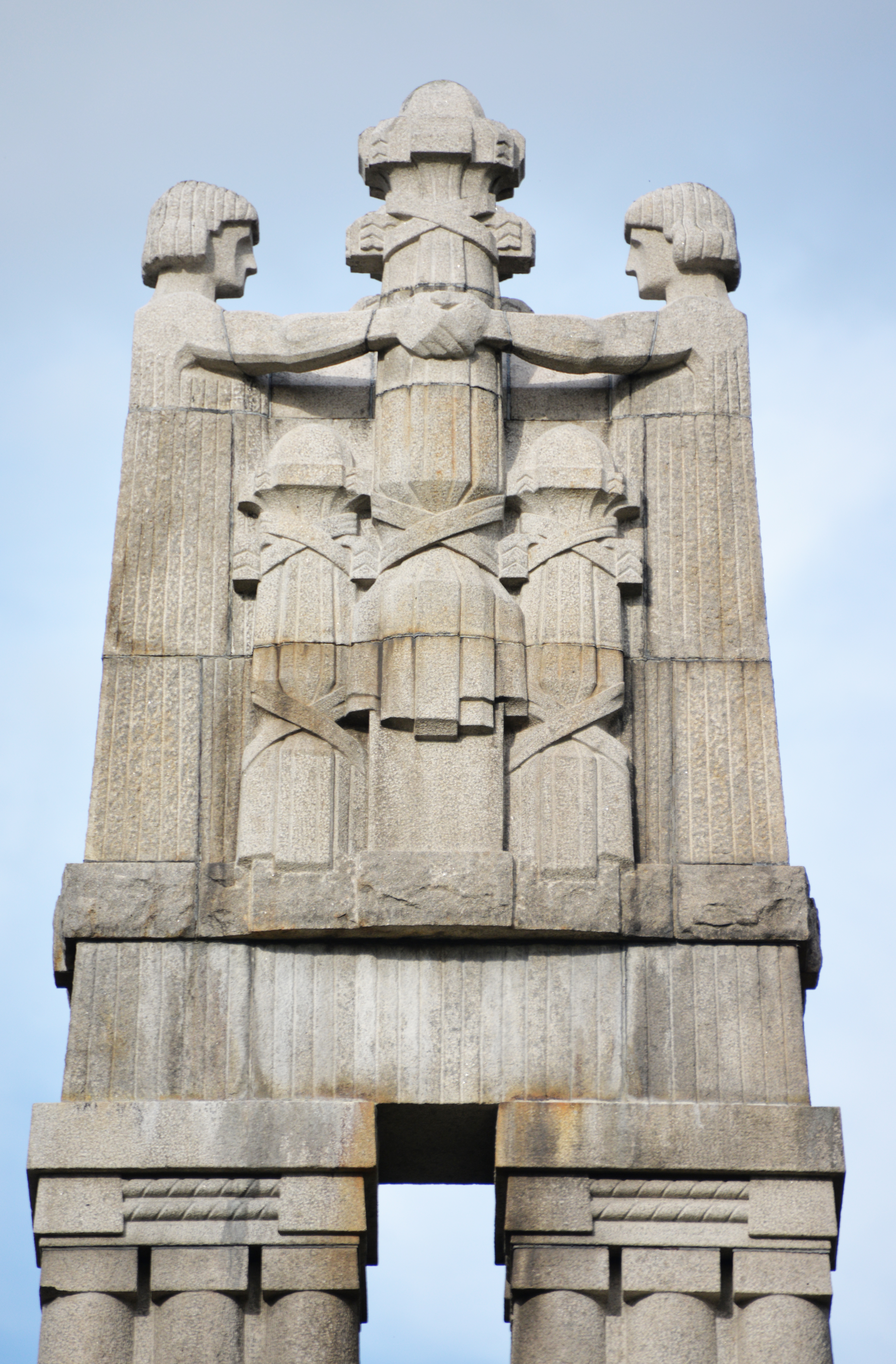 Morokulien